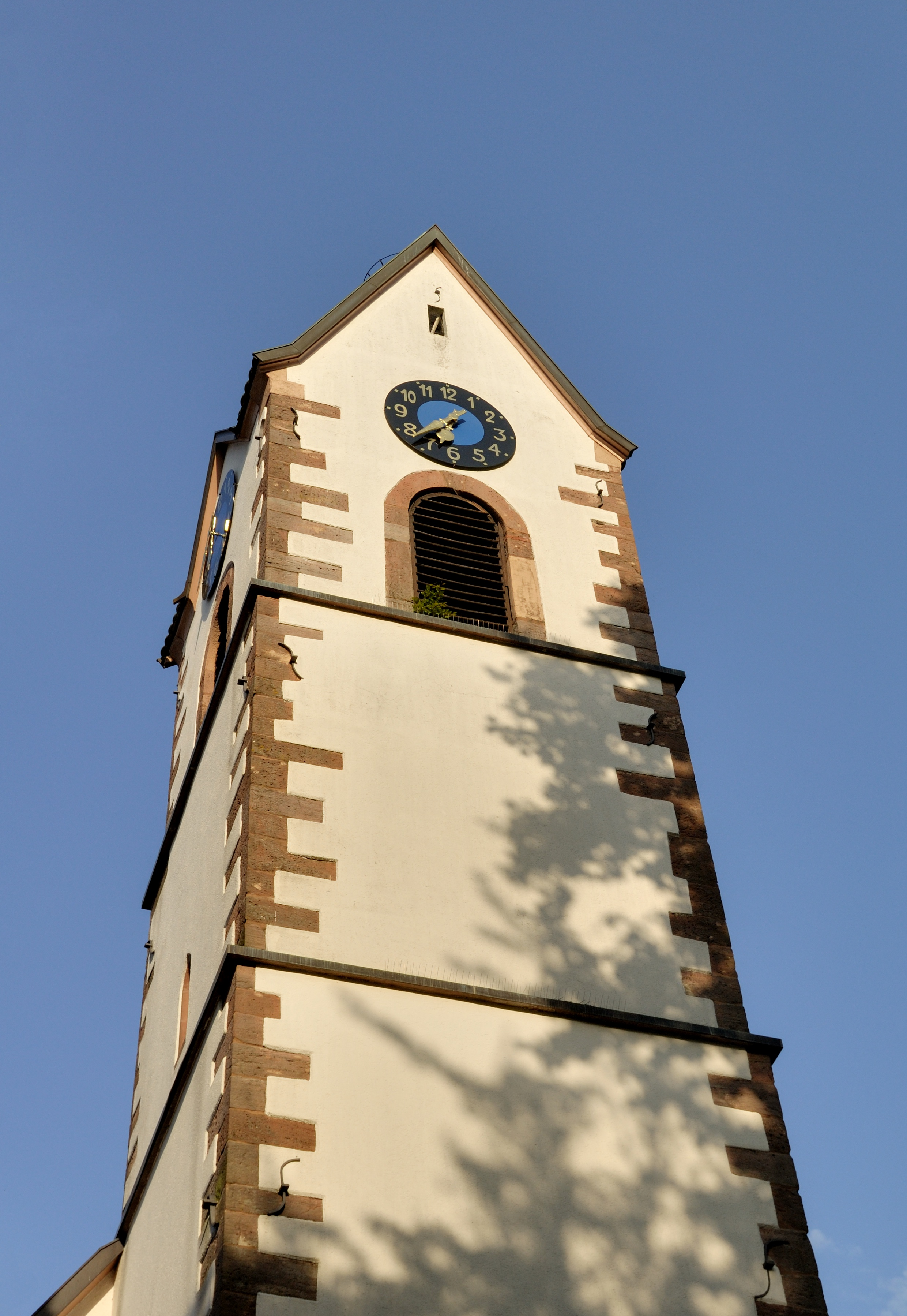 Maulburg: Protestant Church